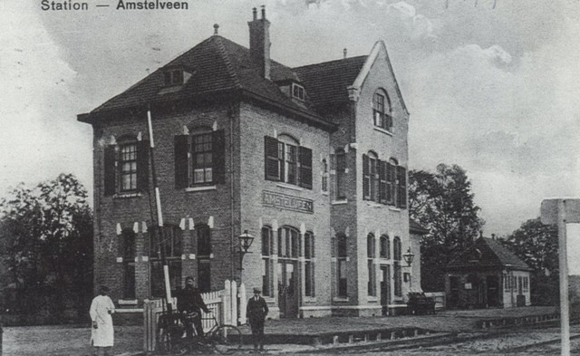 Postcard train station building Amstelveen (1920).